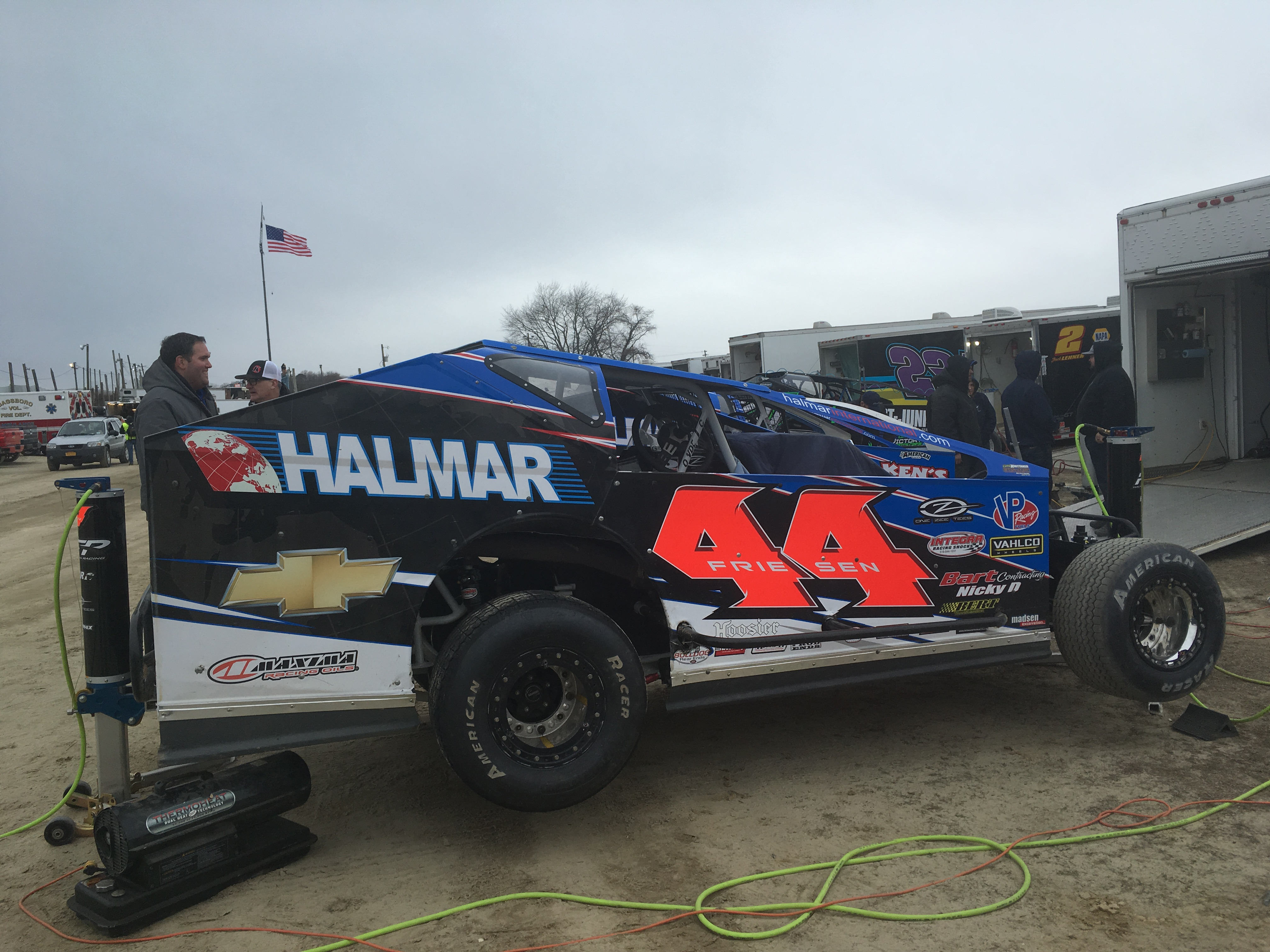 Stewart Friesen's modified car at Georgetown Speedway in Georgetown, Delaware